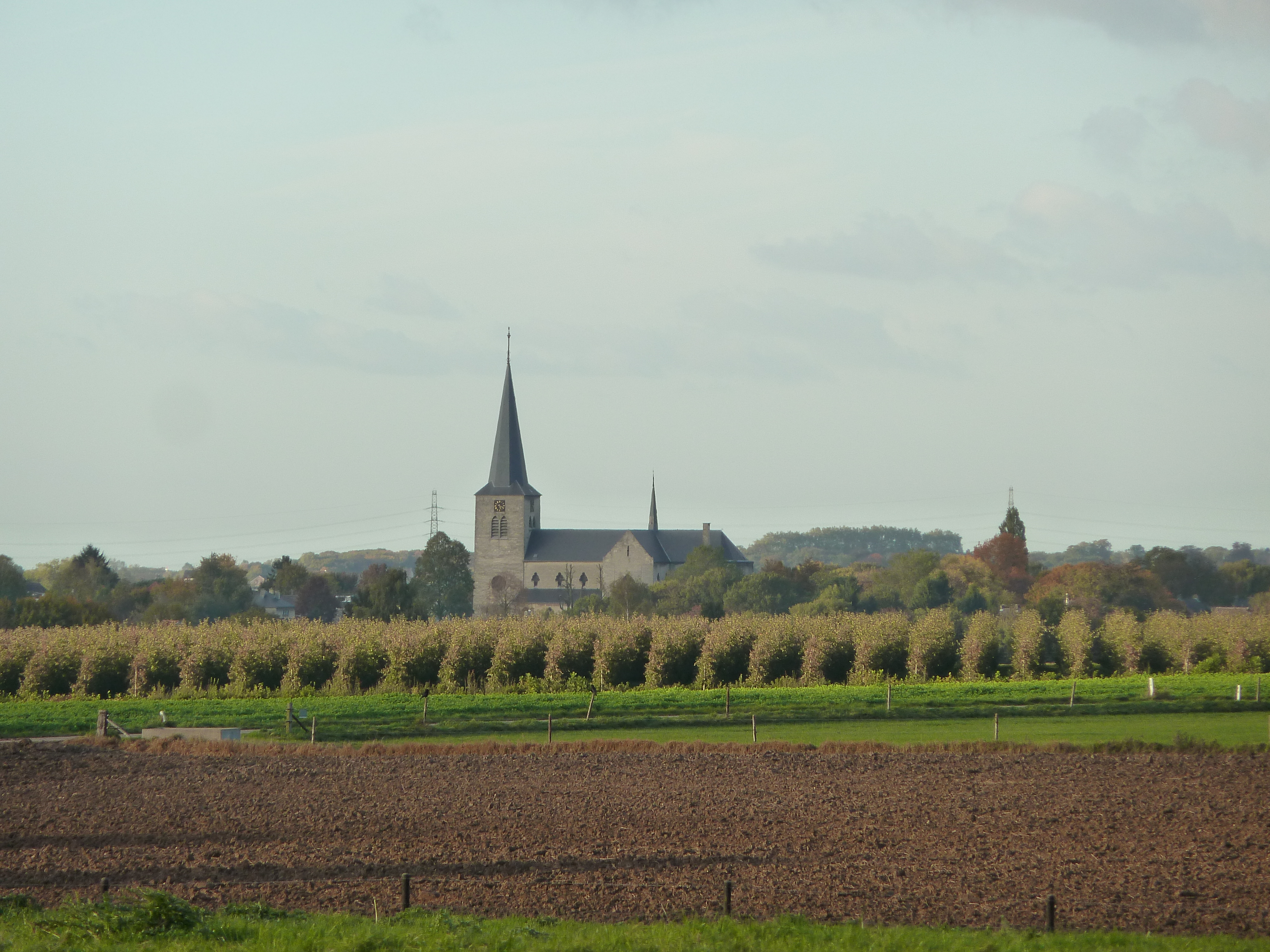 Church of Berg (Valkenburg), Limburg, the Netherlands